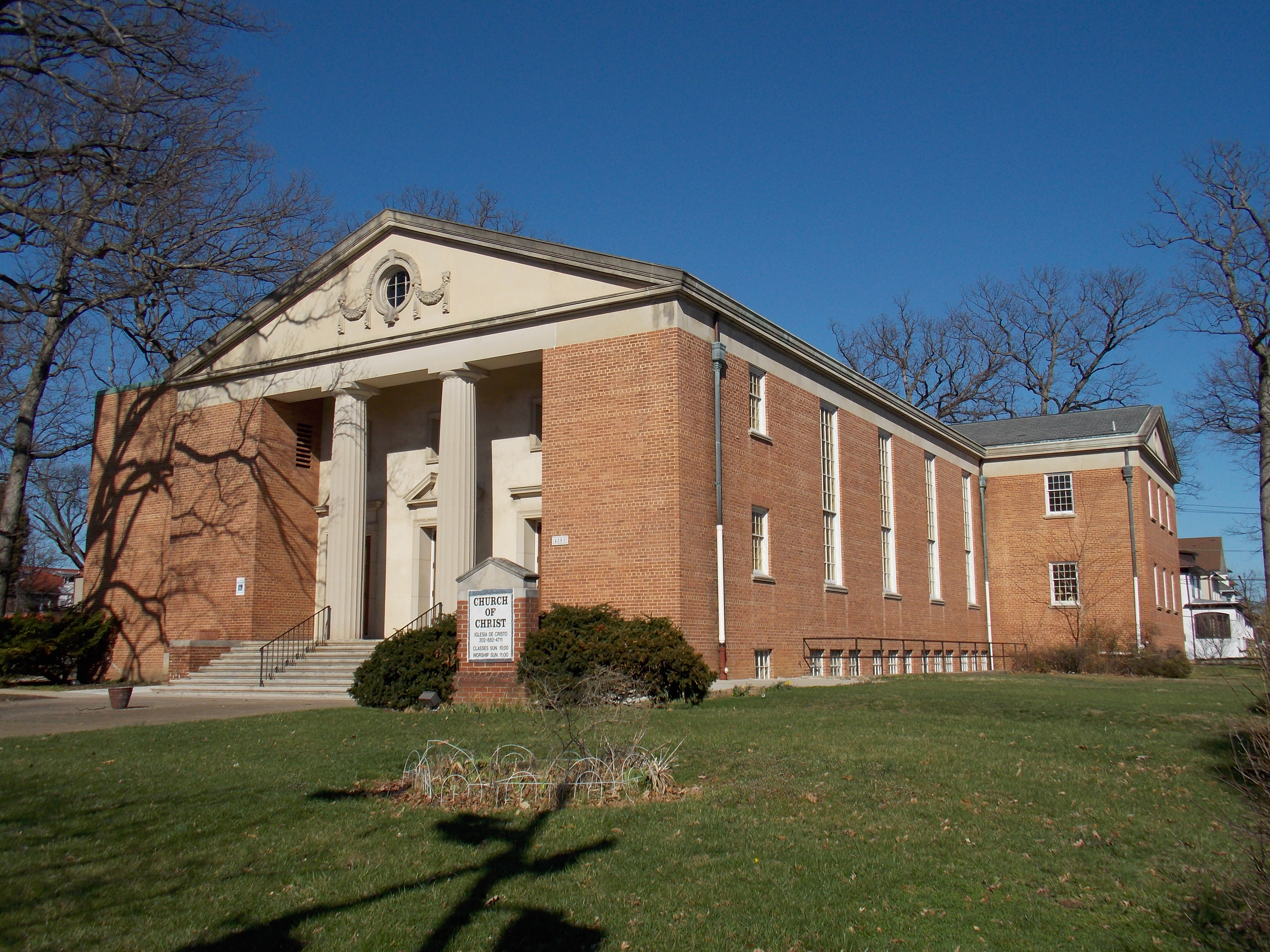 Sixteenth & Decatur Church of Christ in Northwest Washington, D.C.